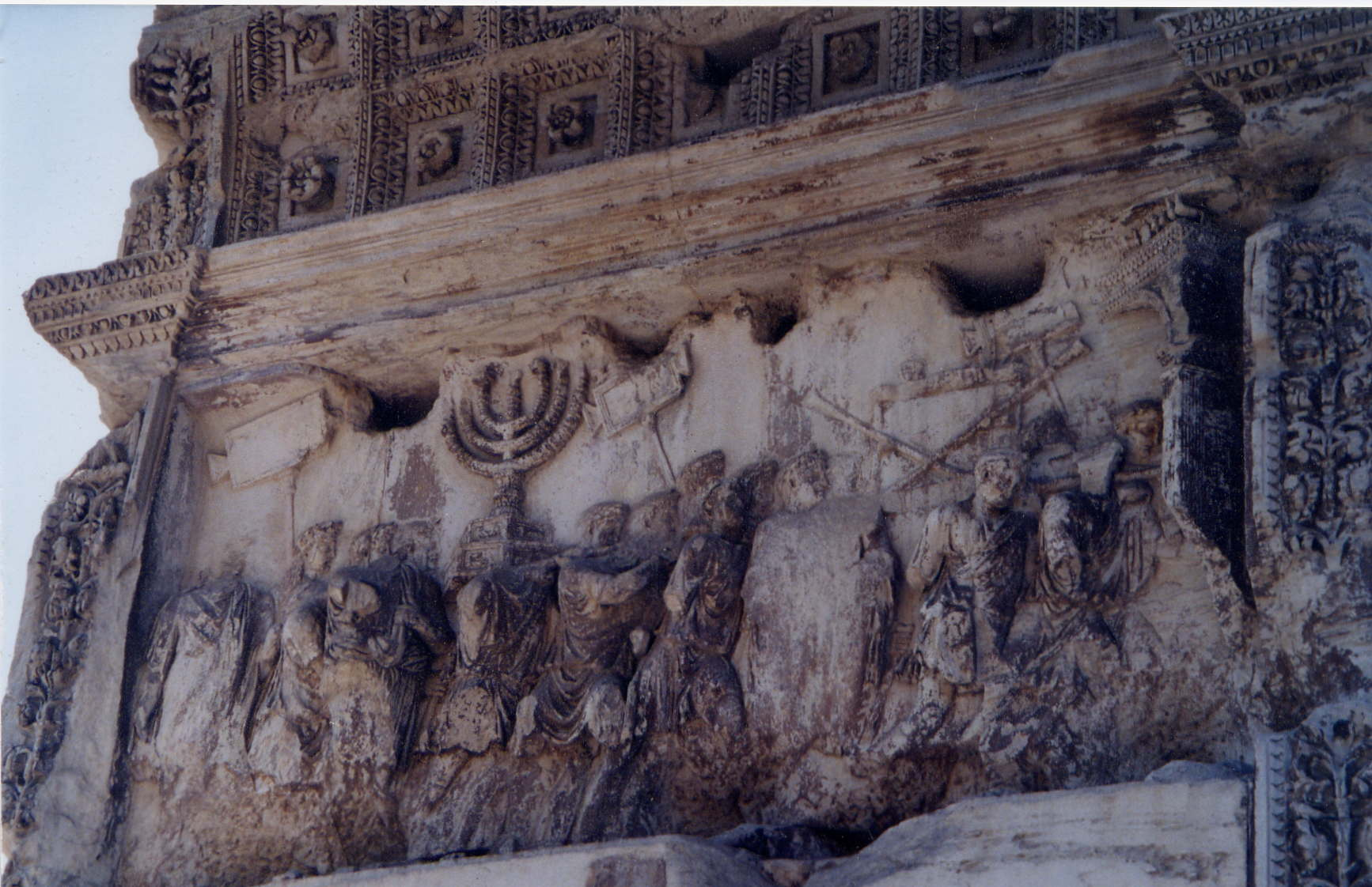 Arc of Titus; attributes of the Jerusalem temple; Rome